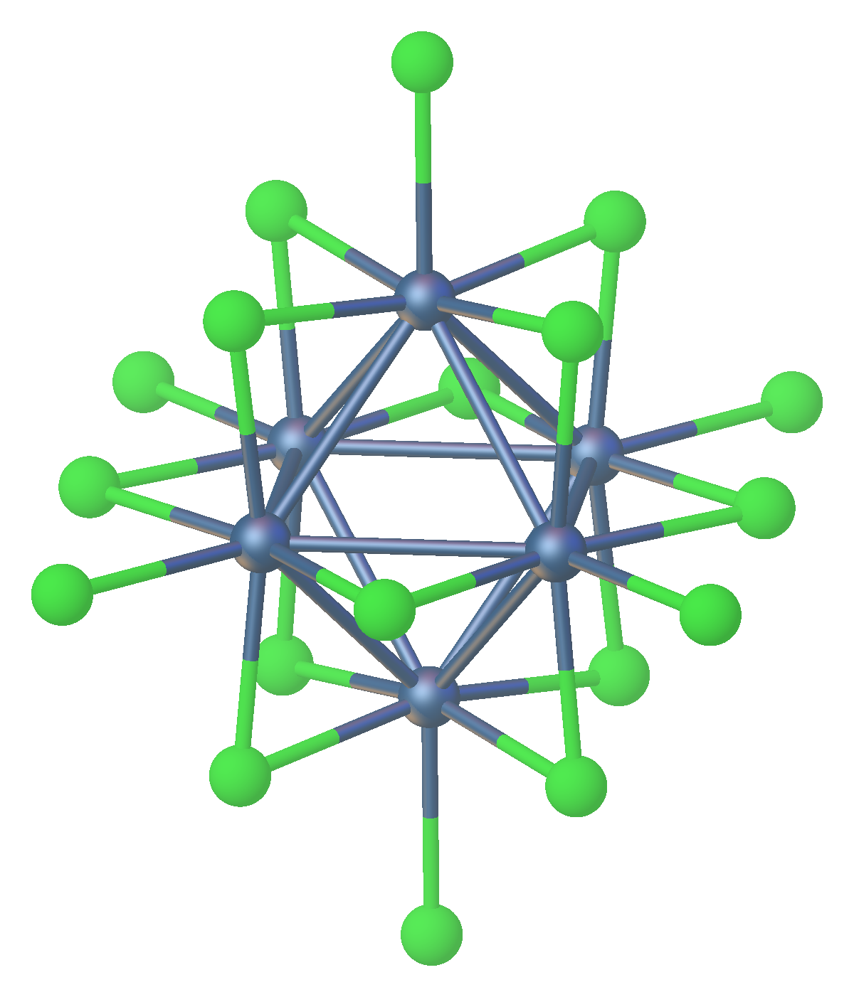 Ta6Cl18]2- from The Crystal Structure of H2 (Ta6 Cl18) (H2 O)6 Thaxton, C.B.; Jacobson, R.A. Inorganic Chemistry (1971) 10, (*) p1460-p1463